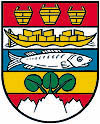 Coat of arms (.jpg version) of Gmunden